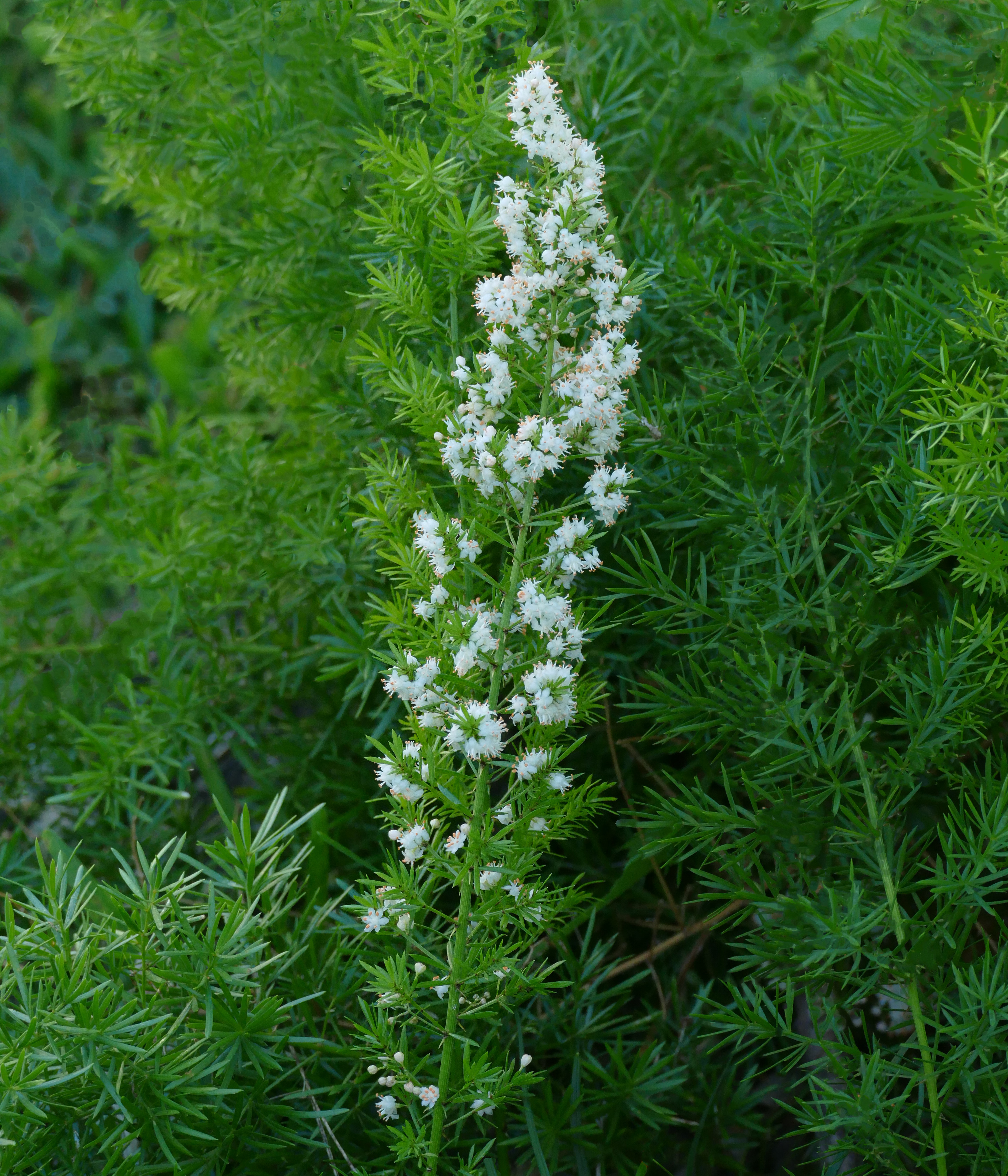 Asparagus Fern -- asparagus densiflorus 'sprengeri'